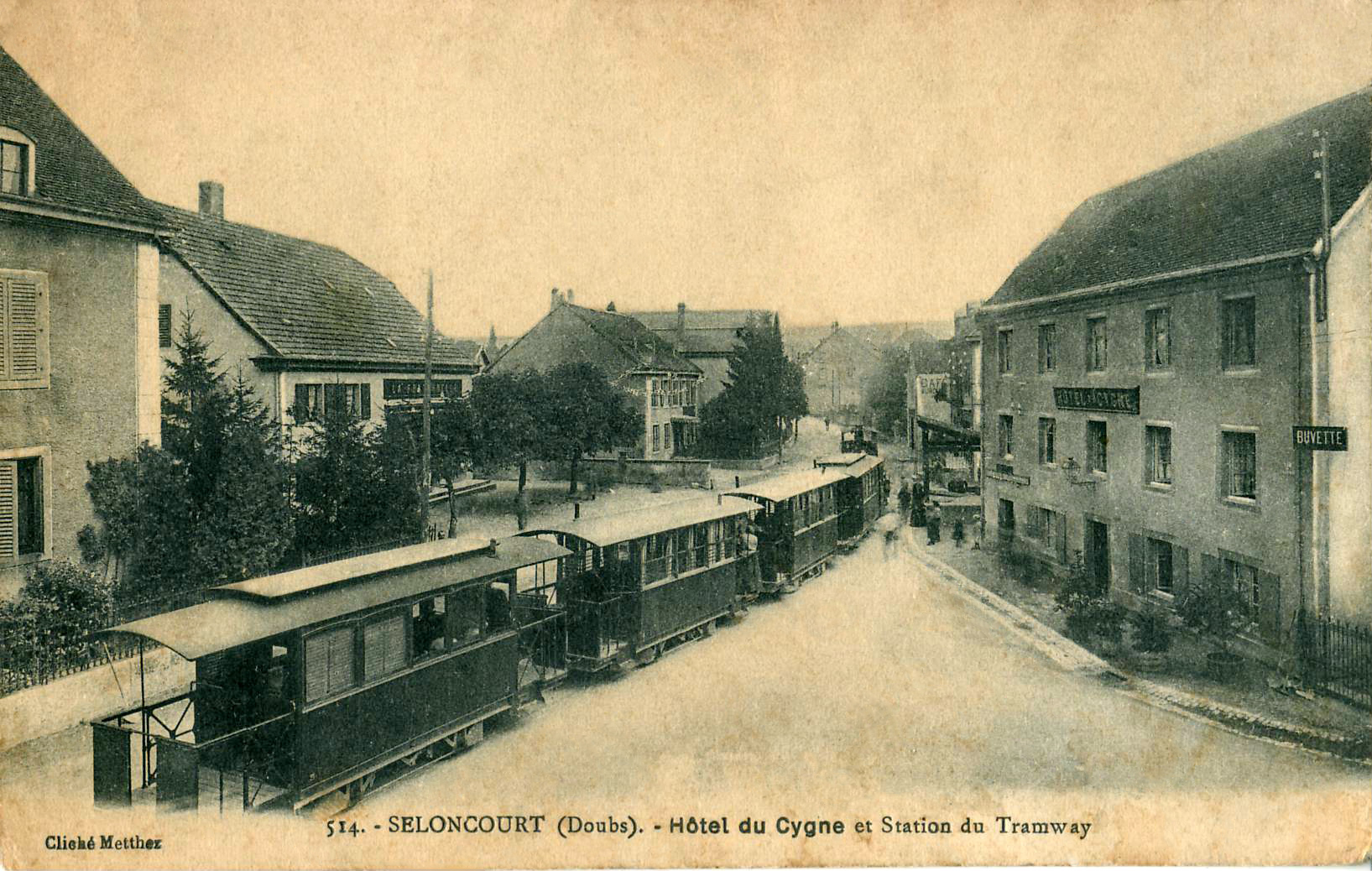 Carte postale ancienne éditée par Metthez : SELONCOURT - Hôtel du Cygne et Station du Tramway (Tramway de la Vallée d'Hérimoncourt)